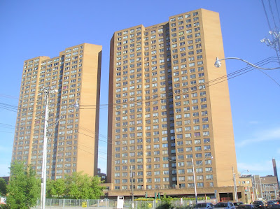 Situated opposite Dunda Street West, Toronto